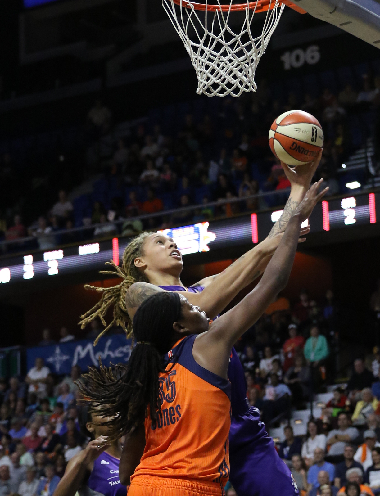 Brittney Griner goes for a lay up during a 2017 WNBA regular season game